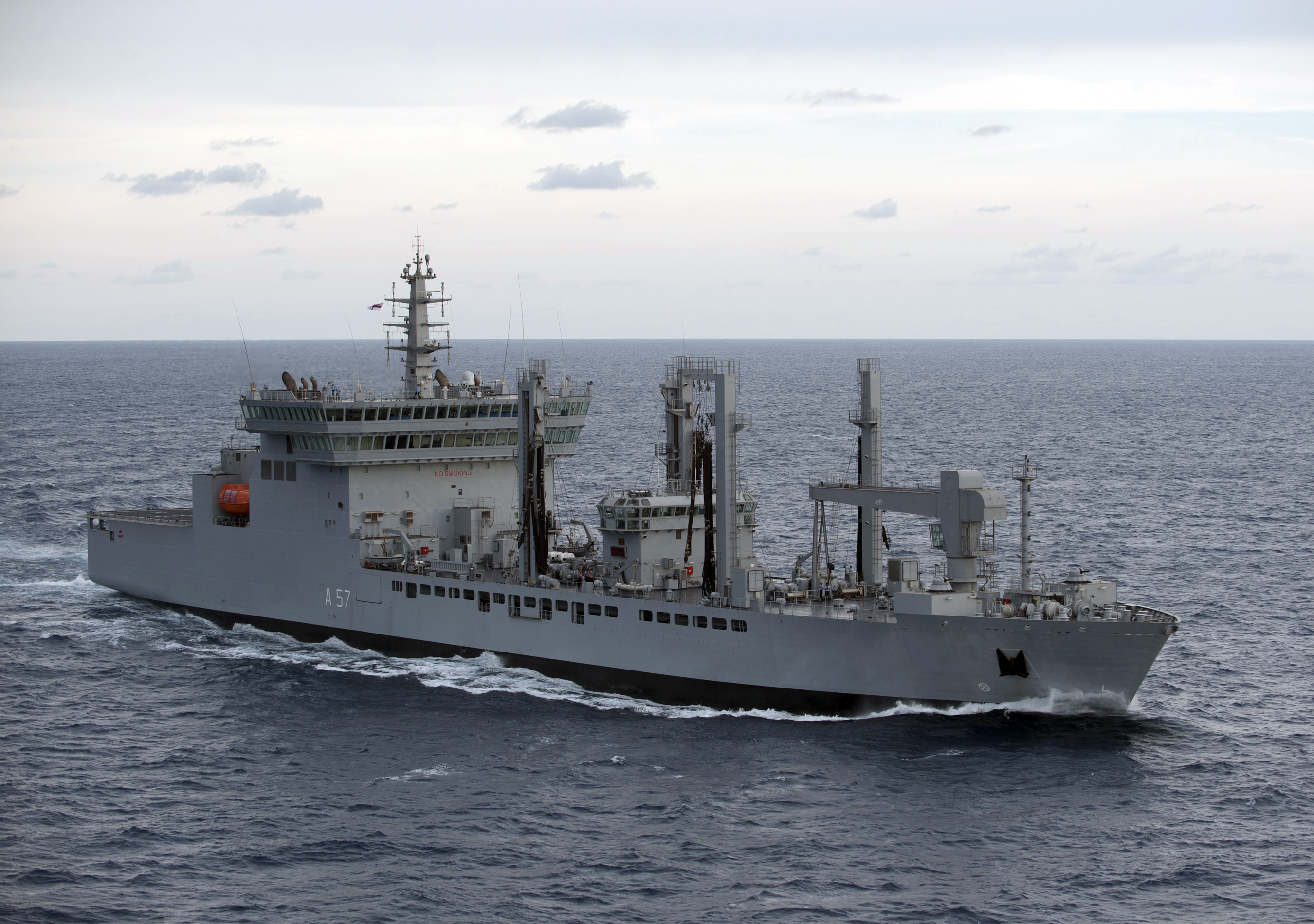 The Indian navy fleet oiler INS Shakti (A57) is underway with ships of Carrier Strike Group (CSG) 1 during Exercise Malabar 2012.